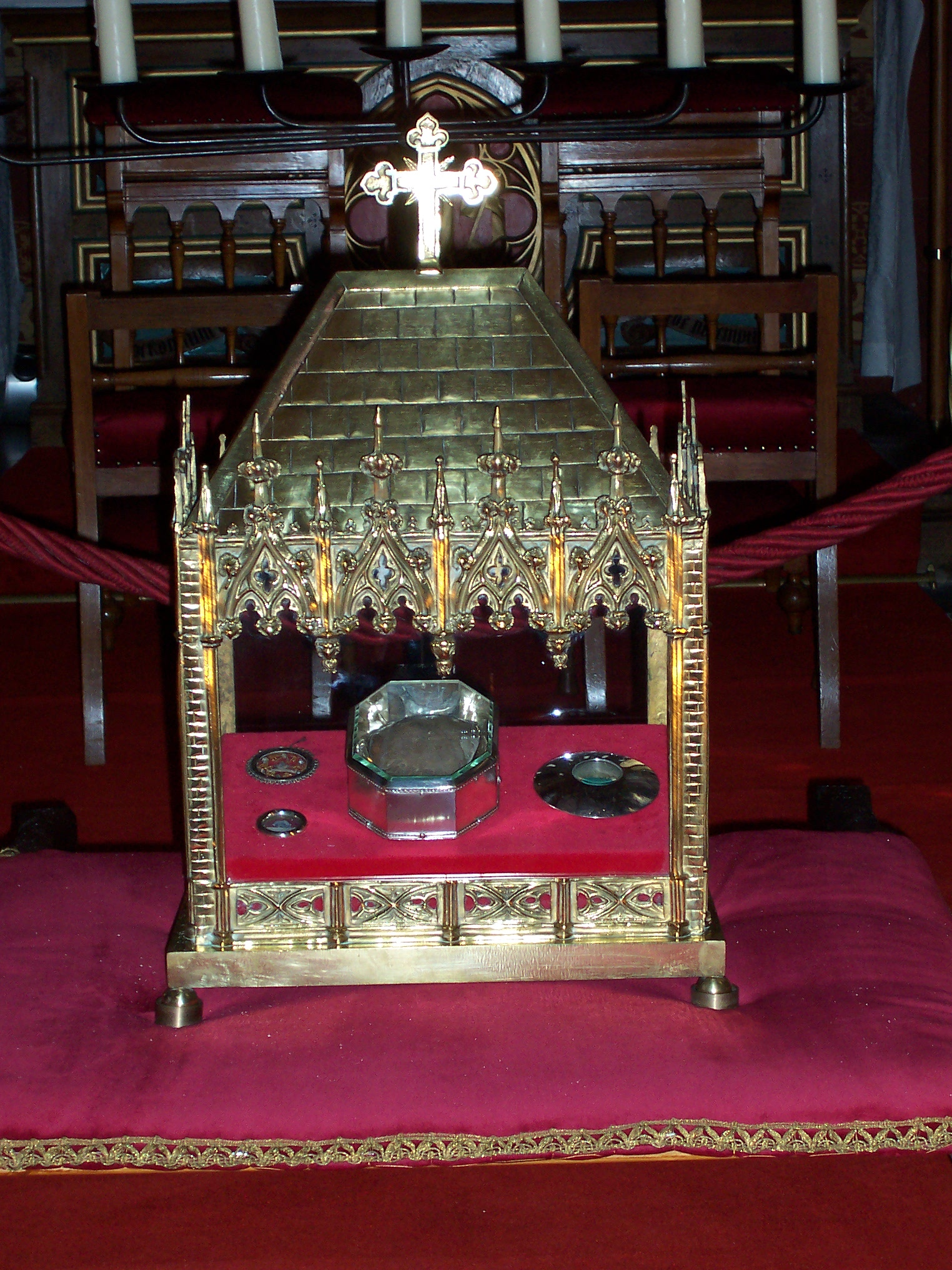 Dokkum, Saint Boniface's reliquaryFrysk: Dokkum, relykskryn fan de hillige Bonifatius